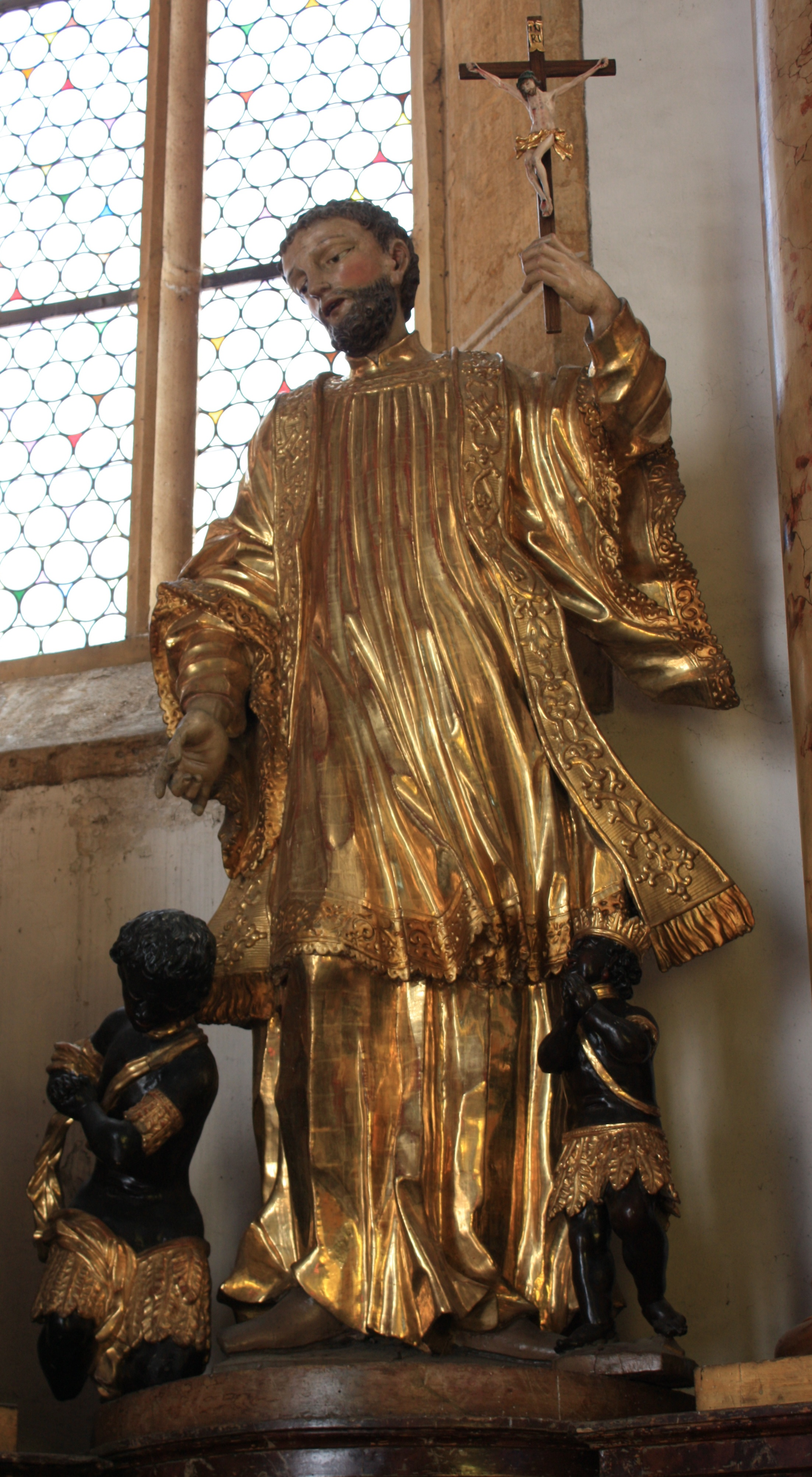 Parish church Saint Niklaus - Petrus Claver Locality:Straßburg Community:Straßburg